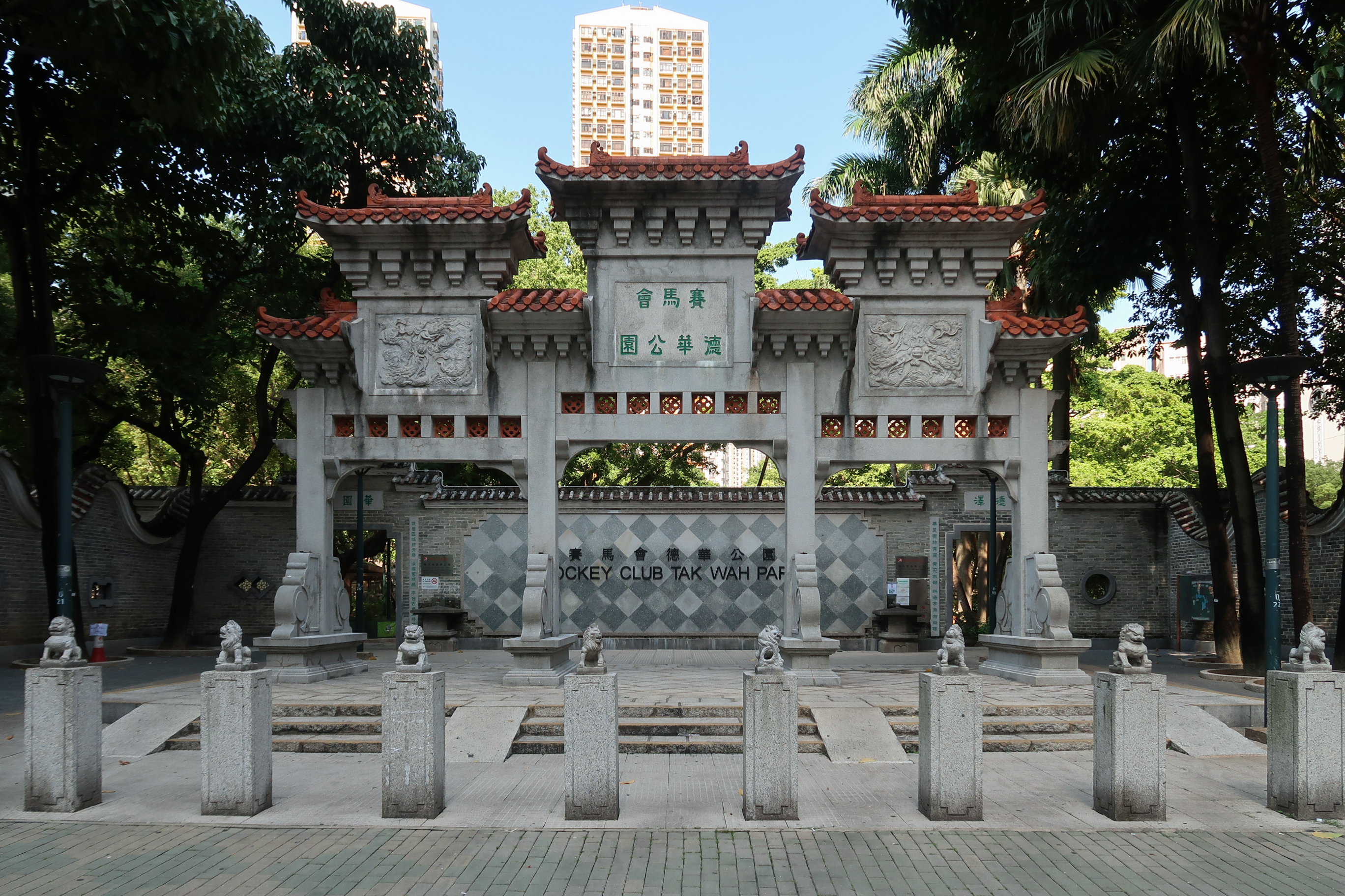 Jockey Club Tak Wah Park Park Entrance Archway